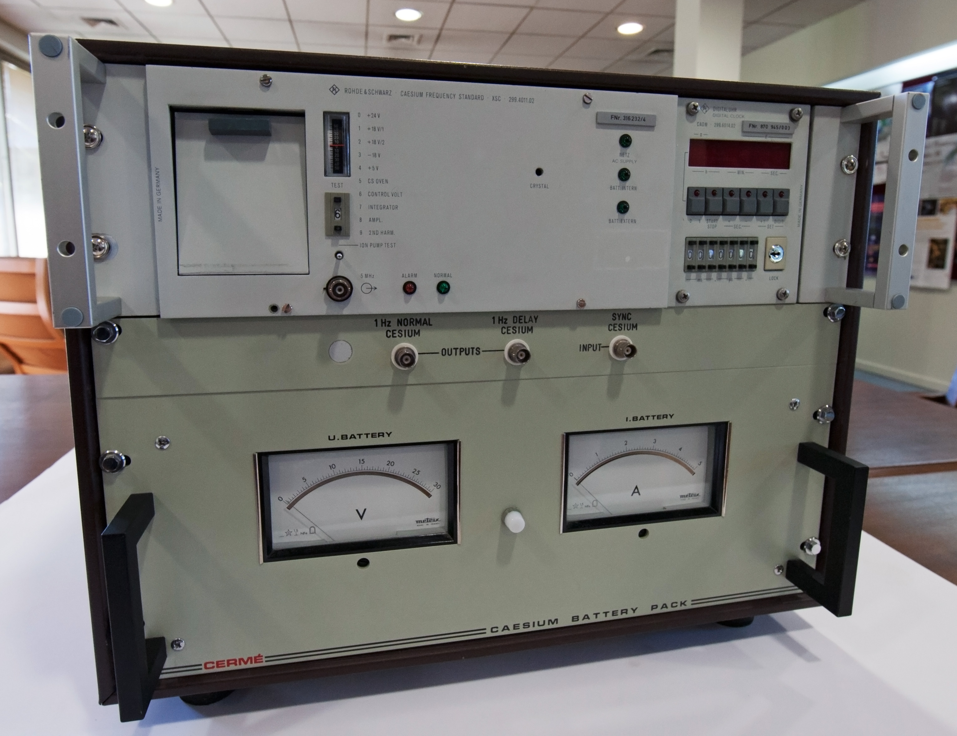 At a ceremony held on 14 November 2013 at the La Moneda Palace, Sebastián Piñera, the President of Chile, received the first atomic clock used by ESO in Chile from Tim de Zeeuw, ESO Director General. This gift, a timepiece that was originally installed at ESO’s La Silla Observatory in 1975, was in gratitude for fifty years of successful collaboration between ESO and the host country.